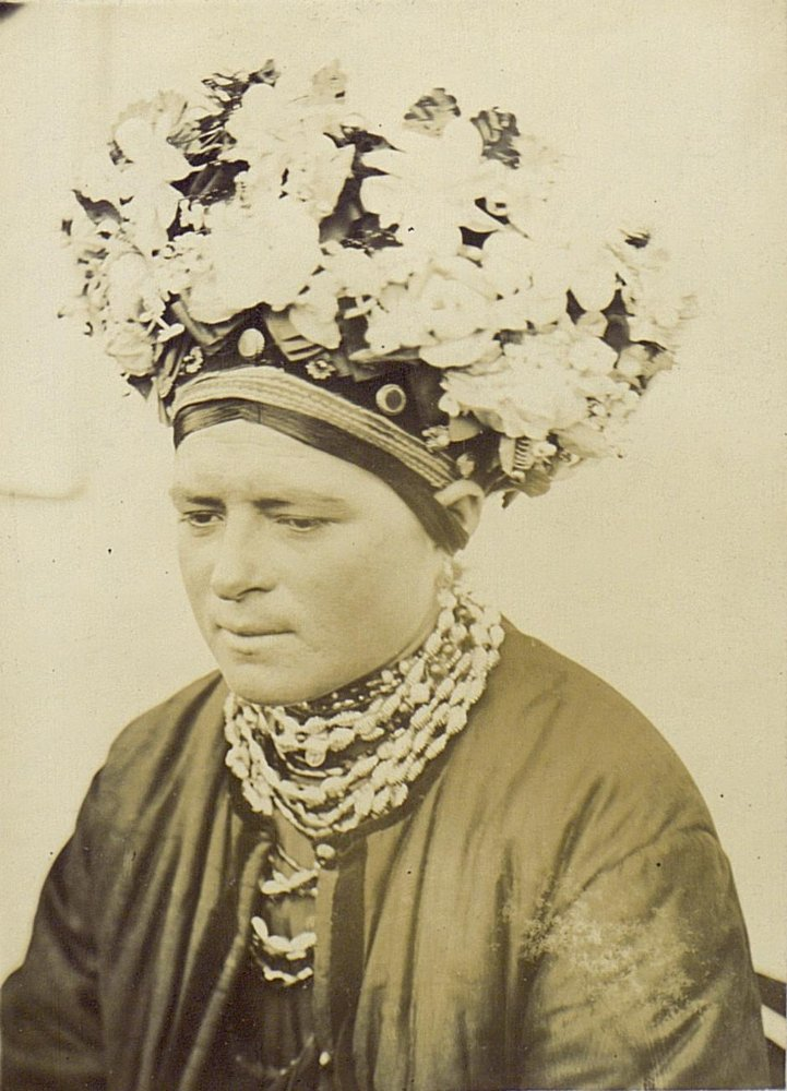 Bride from Kherson region, Ukraine. Photo by Samuil Dudin. 1894